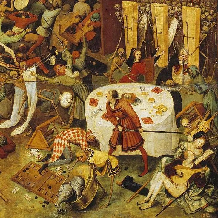 Detail of Bruegel painting The Triumph of Death already in the Wikimedia Commons archive under "File:Thetriumphofdeath.jpg", to be used in Wikipedia article about this artwork.